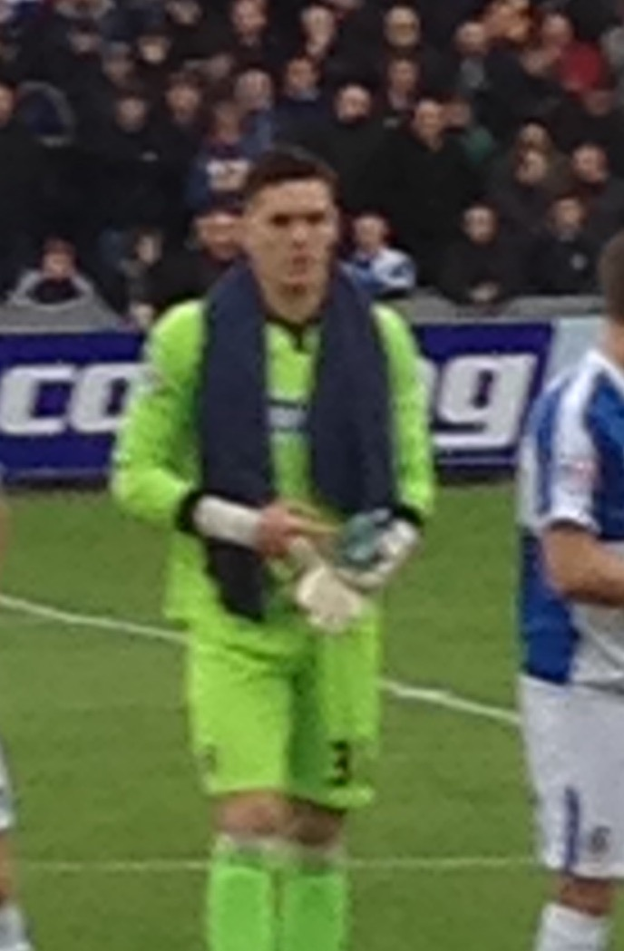 Nicholls lining up for Bristol Rovers in 2015